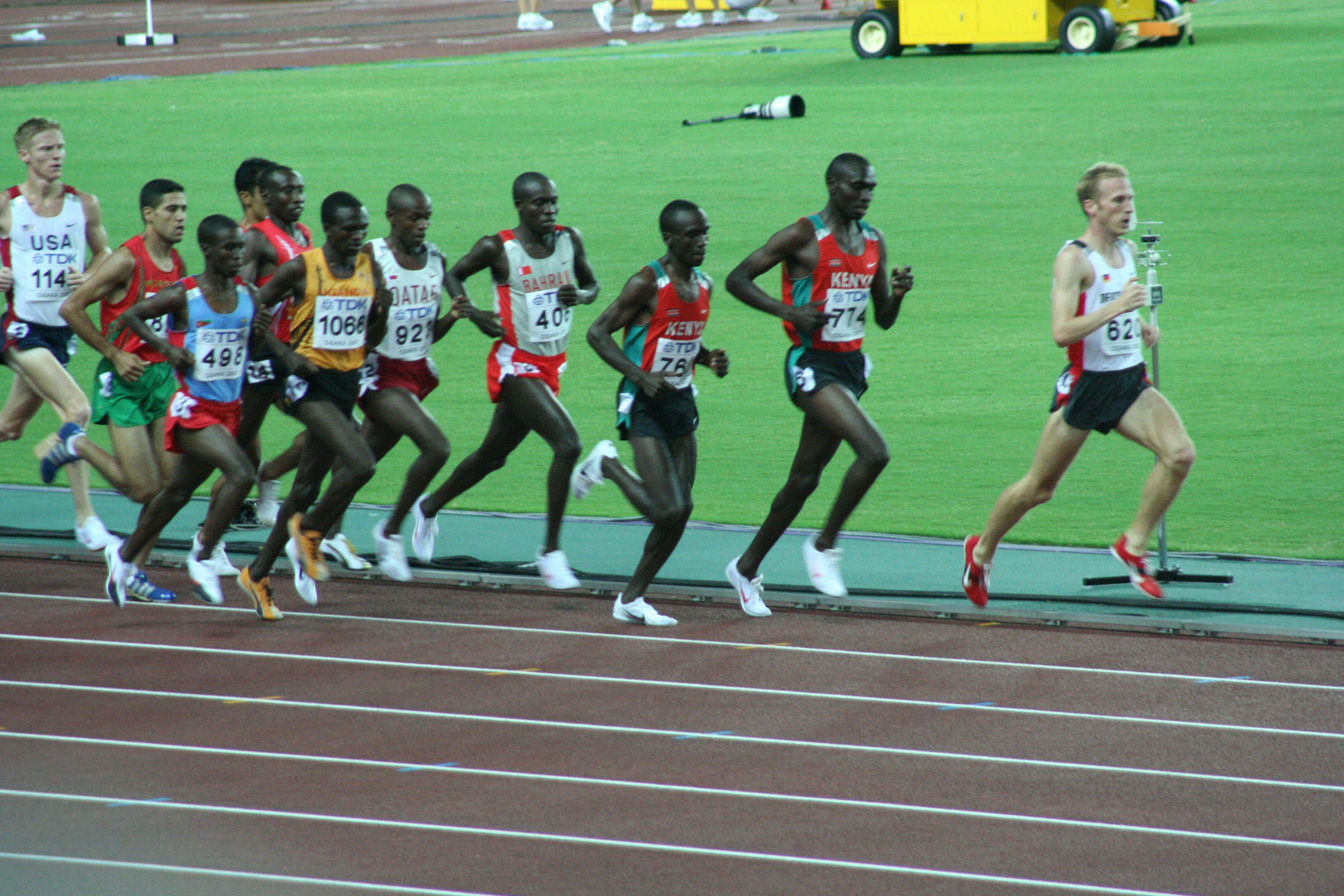 World Athletics Championships 2007 in Osaka - Scene from heat 2 of the qualification round of the men*s 5000 metres: Matthew Tegenkamp, Mourad Marofit, Ali Abdalla, Dieudonné Disi, Stephen Kiprotich, Felix Kikwai Kibore, Aadam Ismaeel Khamis, Eliud Kipchoge, Benjamin Limo, Jan Fitschen